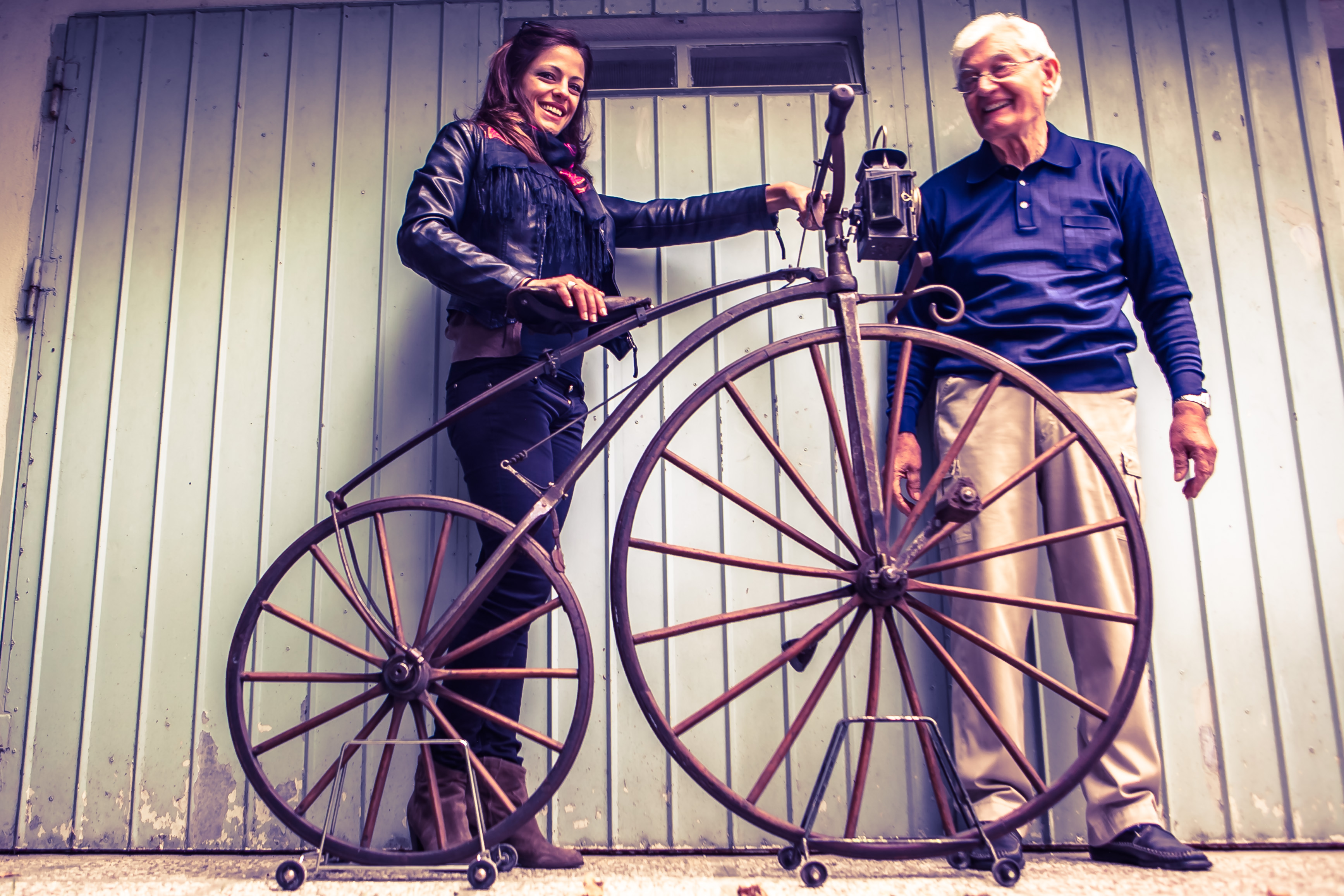 He's probably the person with the most interesting hobby I've ever seen. Mr Flavio Mari is the best example of a life devoted to his passion and its city. He spent a life time to fulfill is biggest passion: bicycles. He proudly shows us his precious collection: over 100 bicycles of all times and sizes. Our visit was like jumping back in time and touching pieces of history. These antique bicycles I had seen only in books and on television. Location: Ferrara, Emilia Romagna, Italy WATCH THE STORY "Feel Free": (A visual story by JOIN US ON FACEBOOK